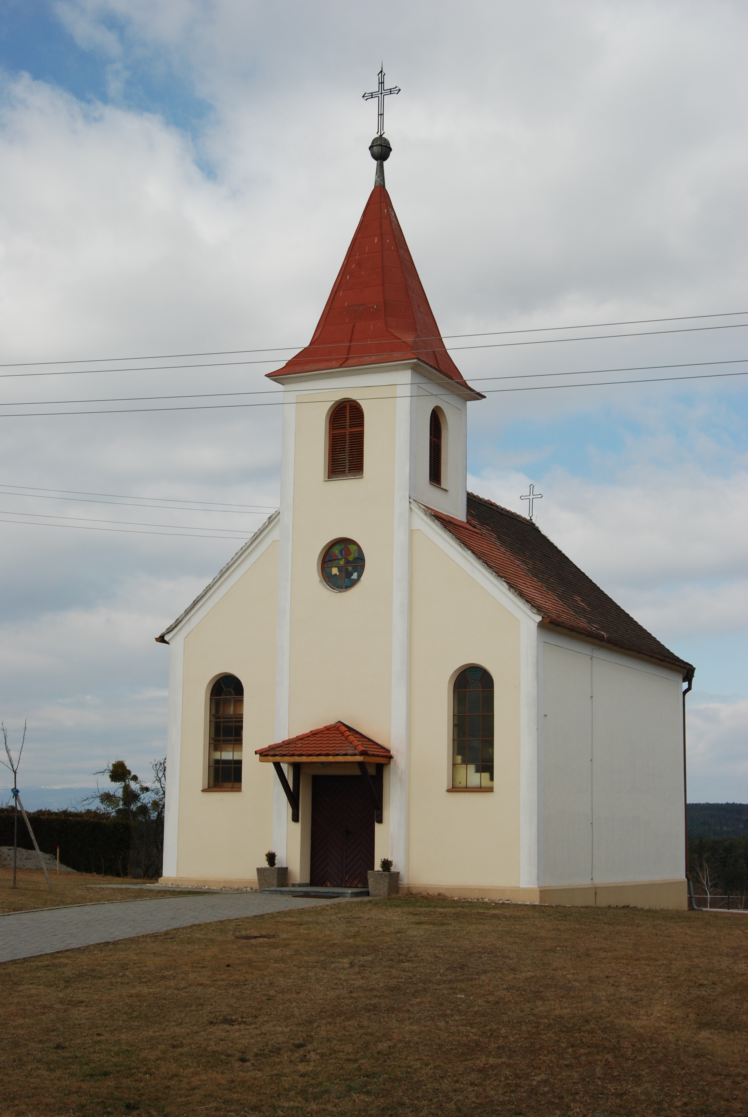 Kapelle Neuhaus in der Wart